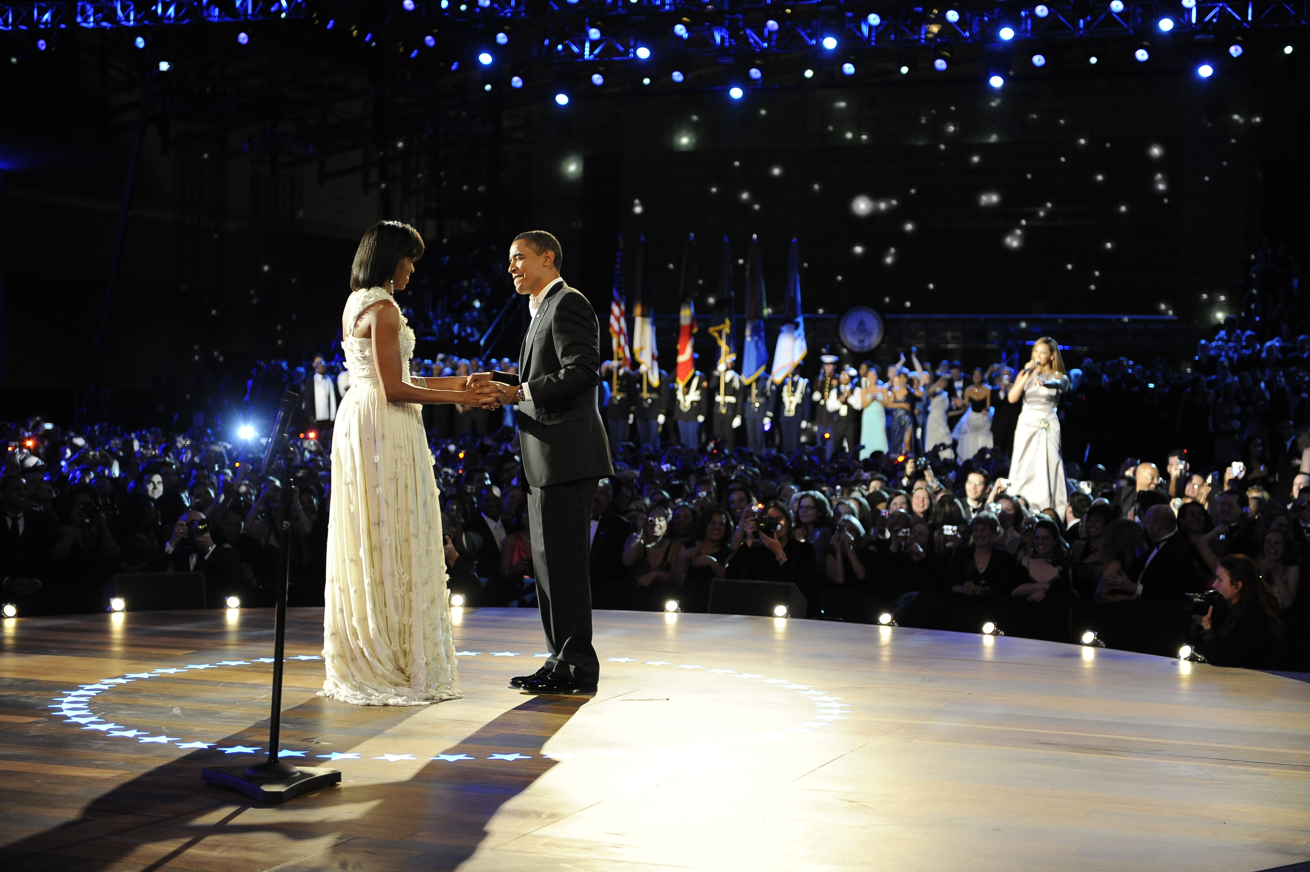 President Barack Obama and First Lady Michelle Obama and are serenaded by Beyoncé at their first inaugural dance at the Neighborhood Ball in downtown Washington, D.C., Jan. 20, 2009. More than 5,000 men and women in uniform are providing military ceremonial support to the presidential inauguration, a tradition dating back to George Washington's 1789 inauguration.